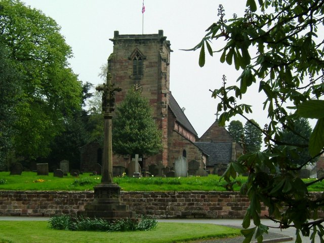 War memorial and St Mary's parish church, Swynnerton, Staffordshire, seen from the west